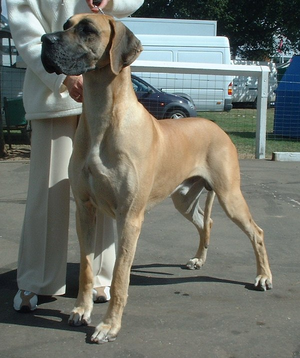 Turlum Talent Scout owned by Mr E. Clark. Photo by sannse at the City of Birmingham Championship Dog Show, 30th August 2003